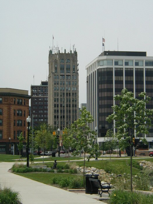 Downtown Jackson, Michigan looking west.